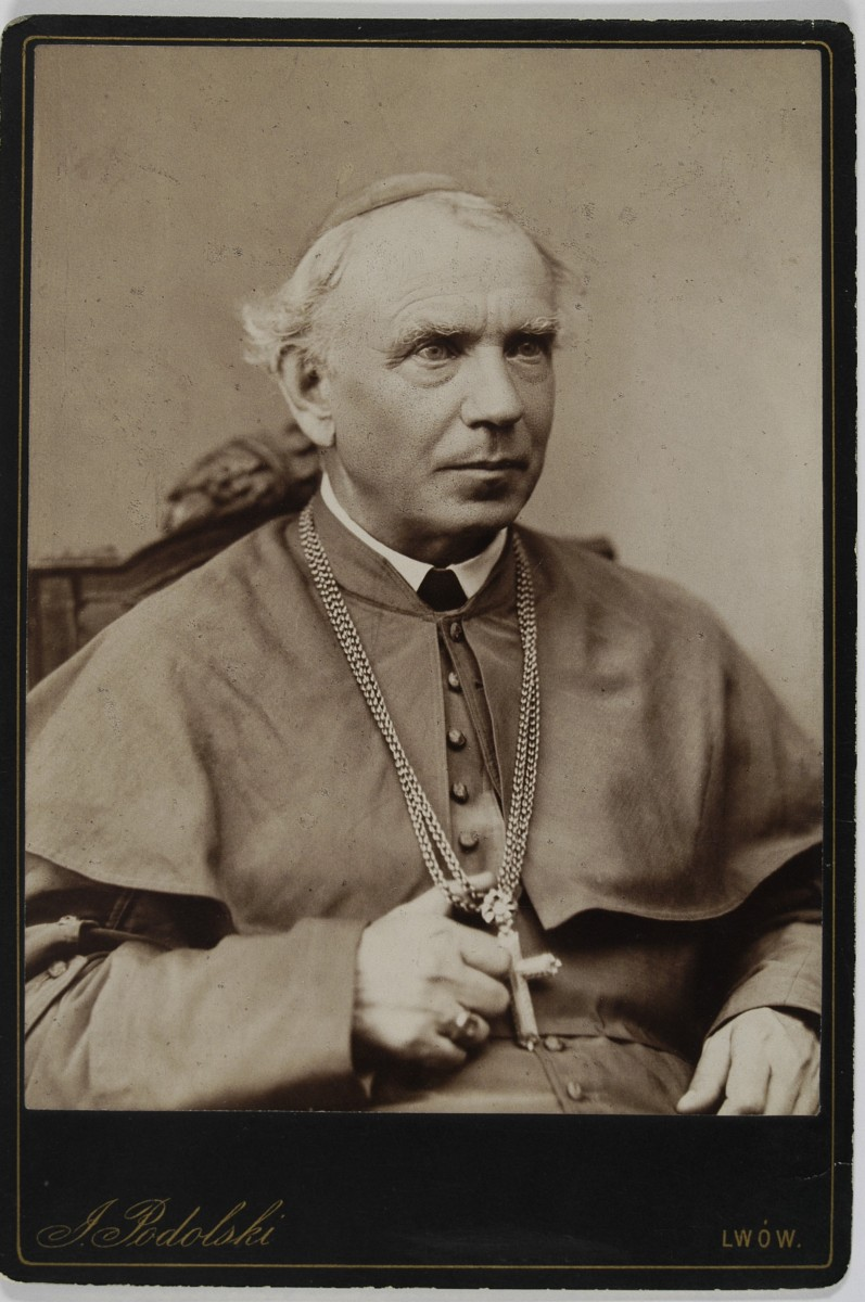 Zygmunt Szczęsny Feliński